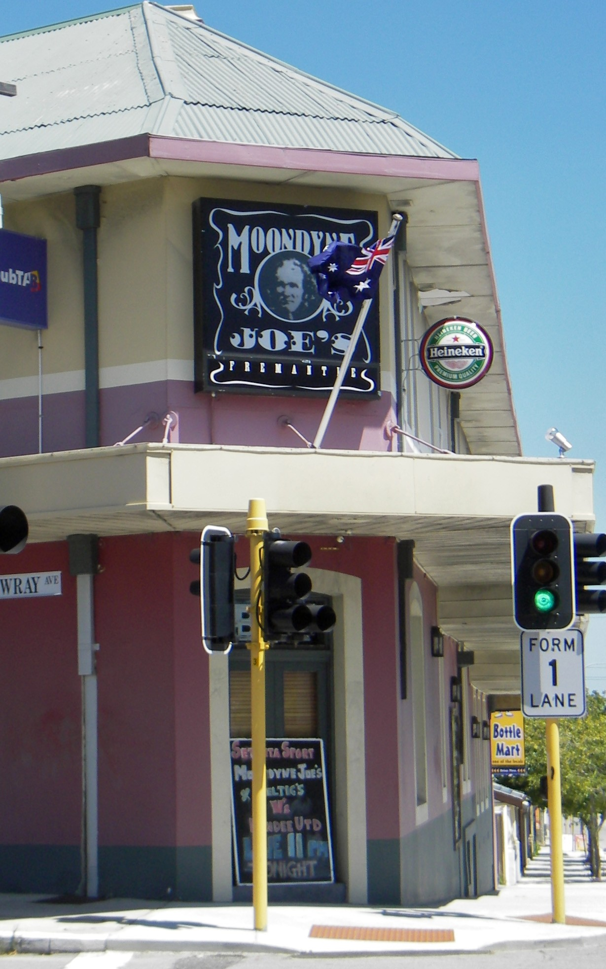 Moondyne Joe's pub, Fremantle, Western Australia